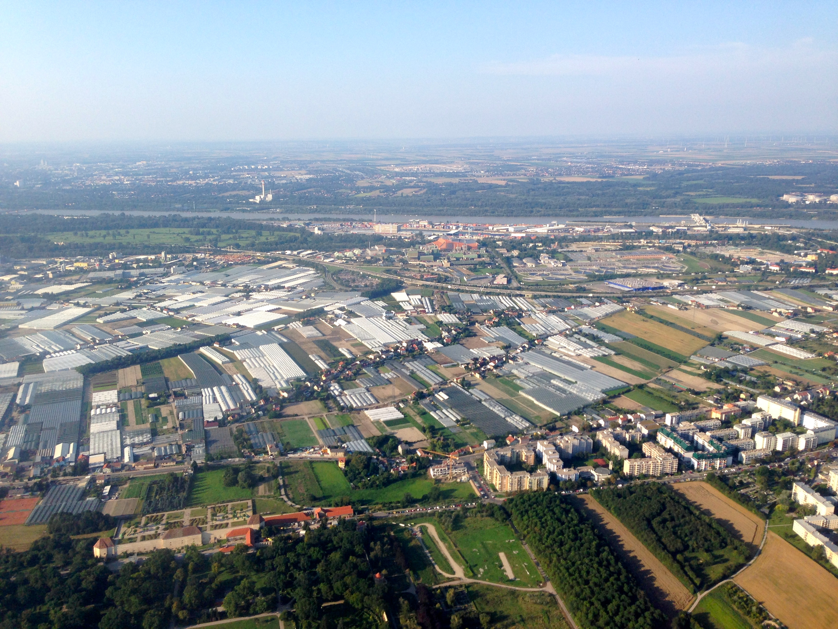 Landing in Vienna on August 2, 2014. Window seat on the pilot’s side. Approach takes you over the city of Vienna and, it was a beautiful day.